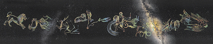 360-degree panorama of the ecliptic showing the traditional Hevelius illustrations of Zodiacal constellations superimposed on a photographic mosaic of the night sky.